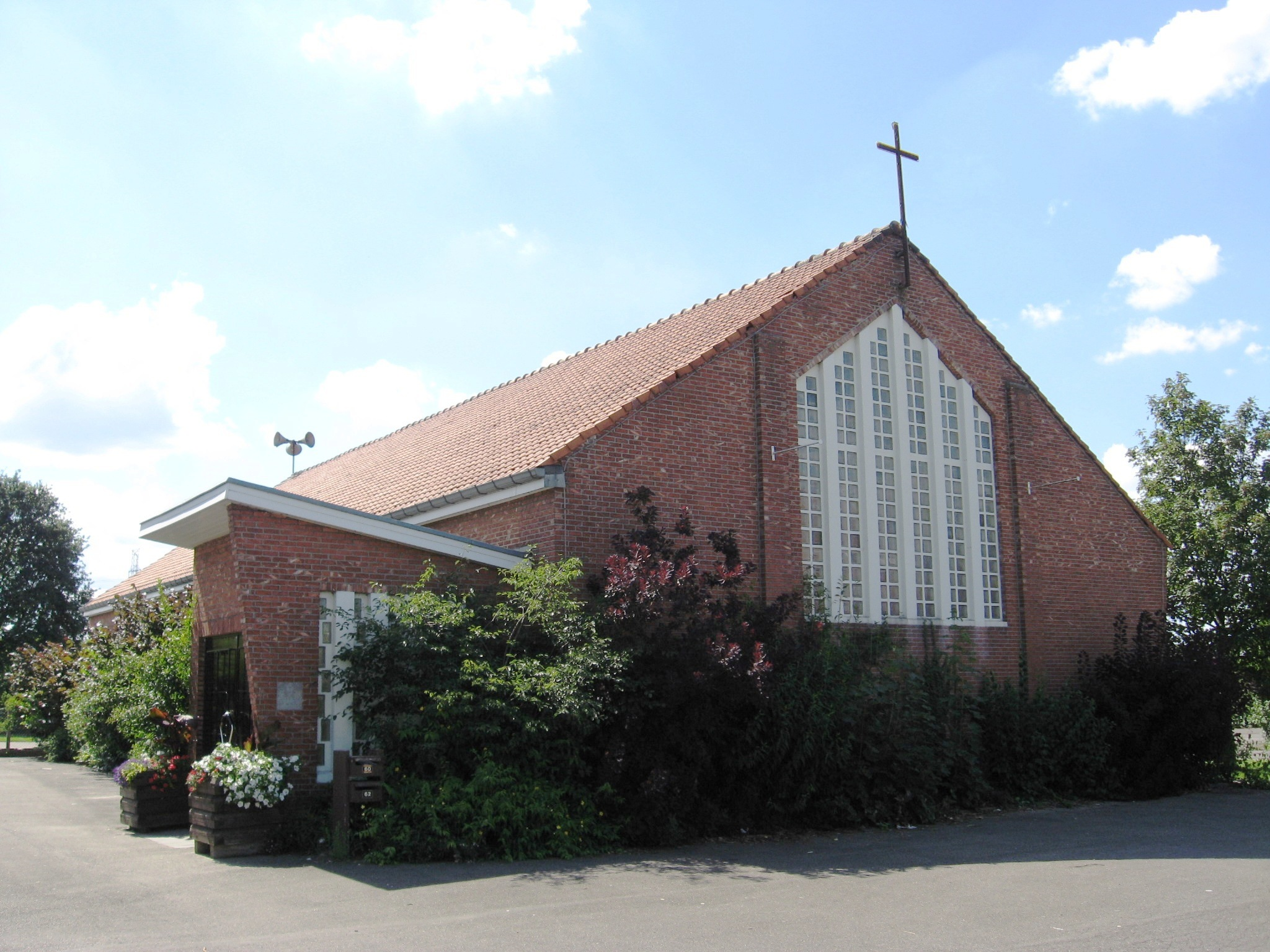 Church of Saint Christopher in Hasselt (Runkst), Limburg, Belgium